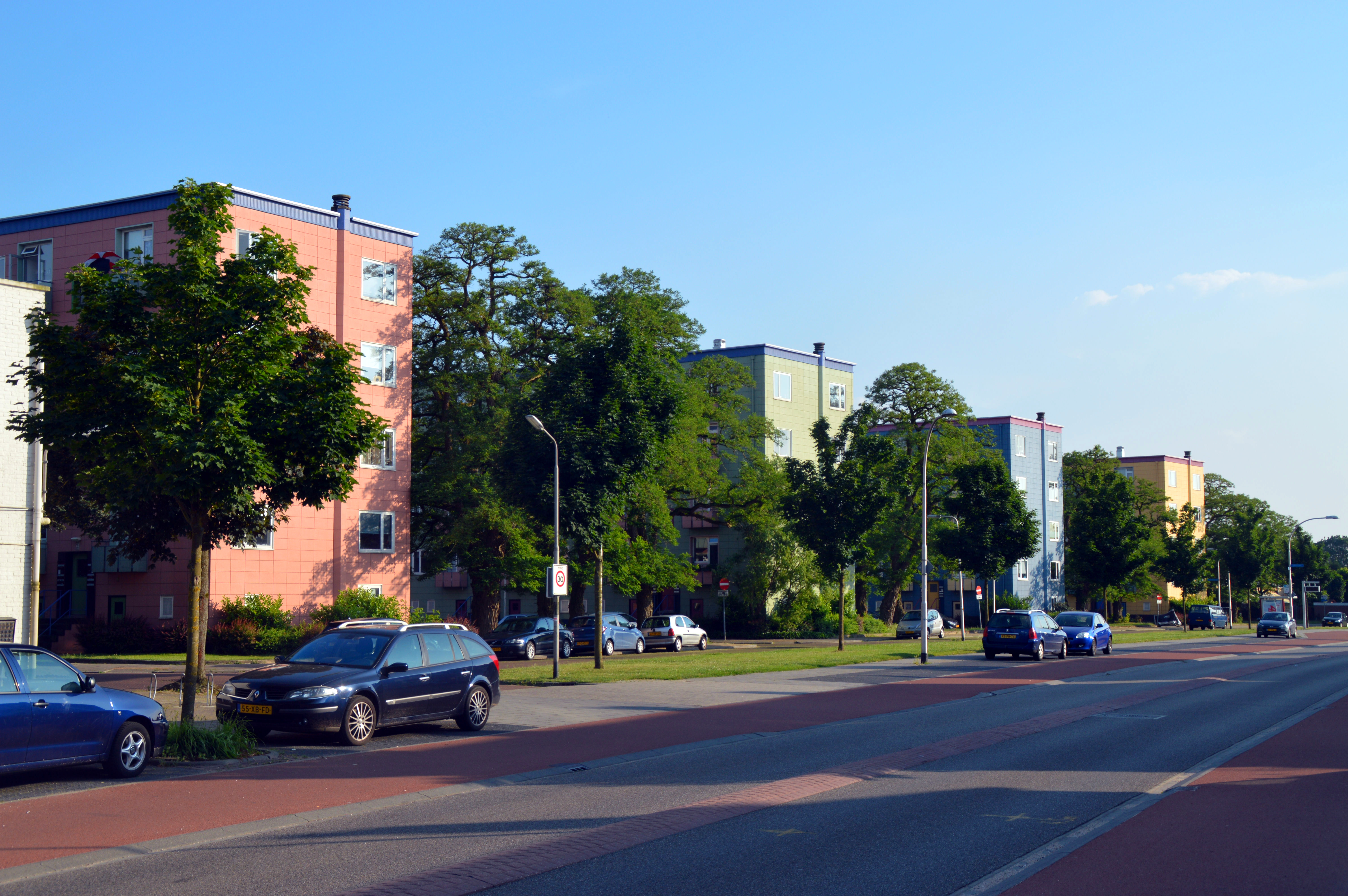 Airey-houses Jerusalem, Heseveld Nijmegen Molenweg